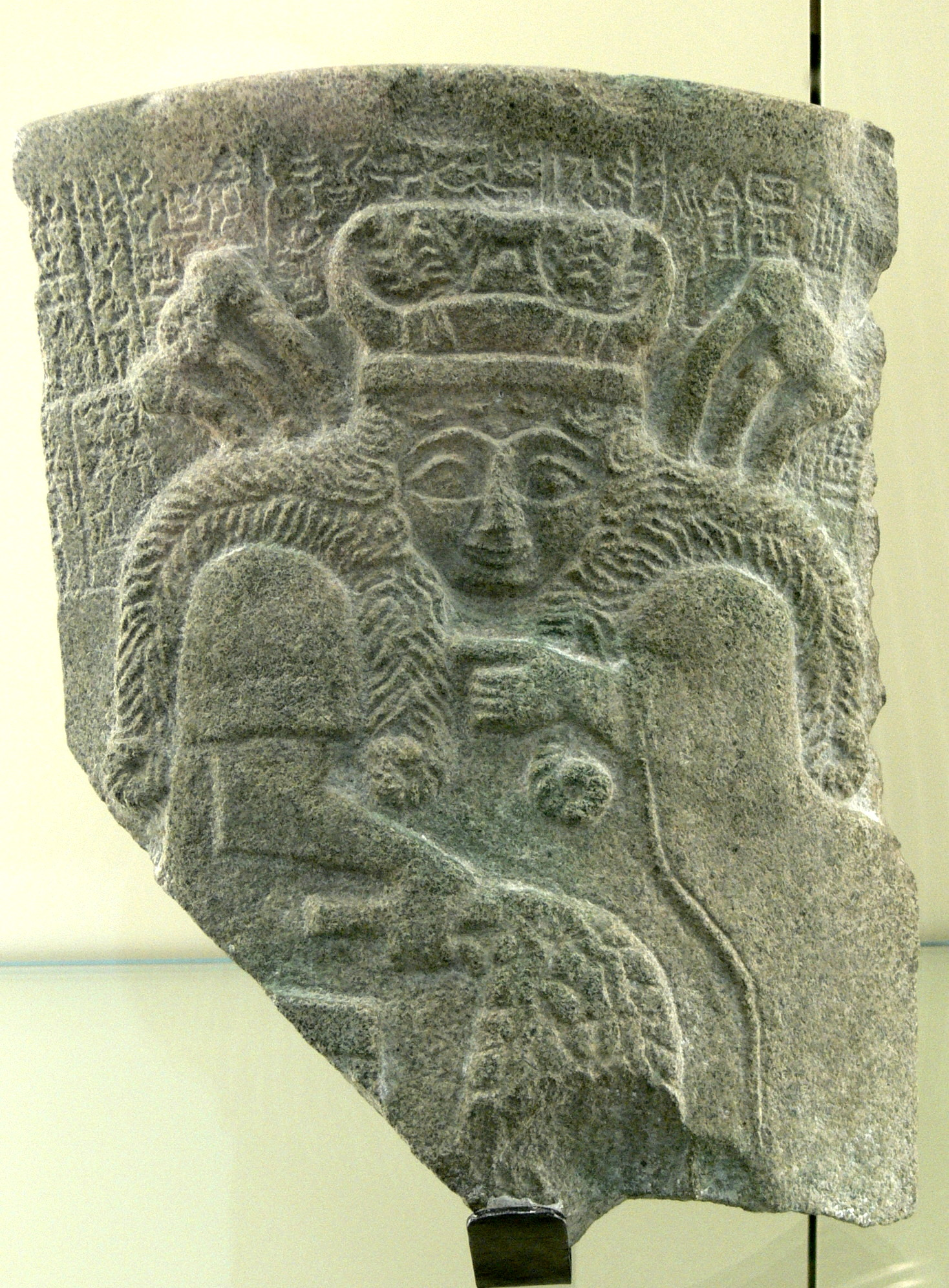 A Sumerian goddess is depicted on this fragment of a chlorite vase from Southern Mesopotamia, Iraq, c. 2430 BC. The name of Entemena, ruler of Lagash, is mentioned in the included cuneiform text. The goddess is depicted wearing a flounced robe and a horned crown over long flowing hair. From her shoulders rise maces or other weapons and in her right hand is a date cluster. This may represent Nisaba or Baba,[1] or Inanna[2]. The Pergamon Museum, Berlin, Germany.